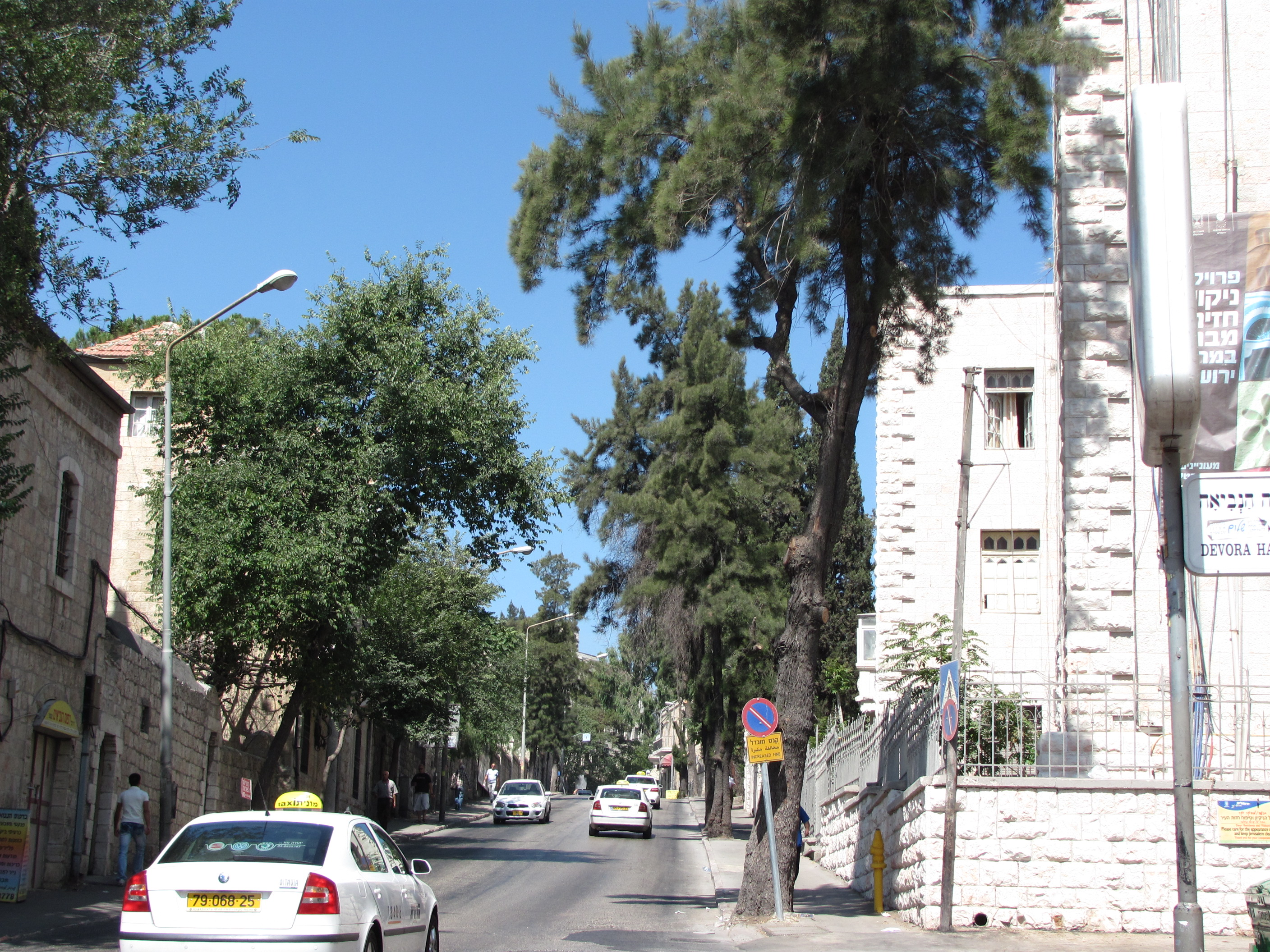 Street of the Prophets, Jerusalem - view looking west from the corner of Devorah Haneviah Street